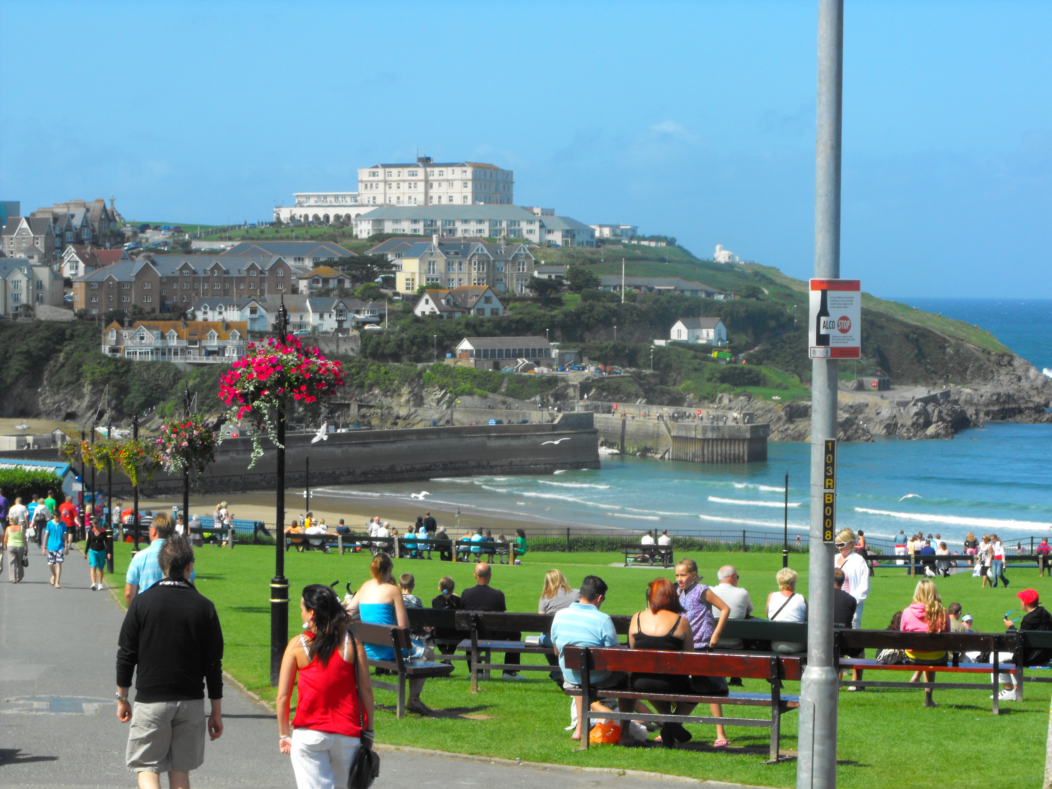 Newquay - western part